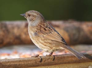 Dunnock (Prunella modularis), Image made in March 2003 in Eversholt, Bedfordshire, UK. Dunnocks are always present around our bird table and birdbath.